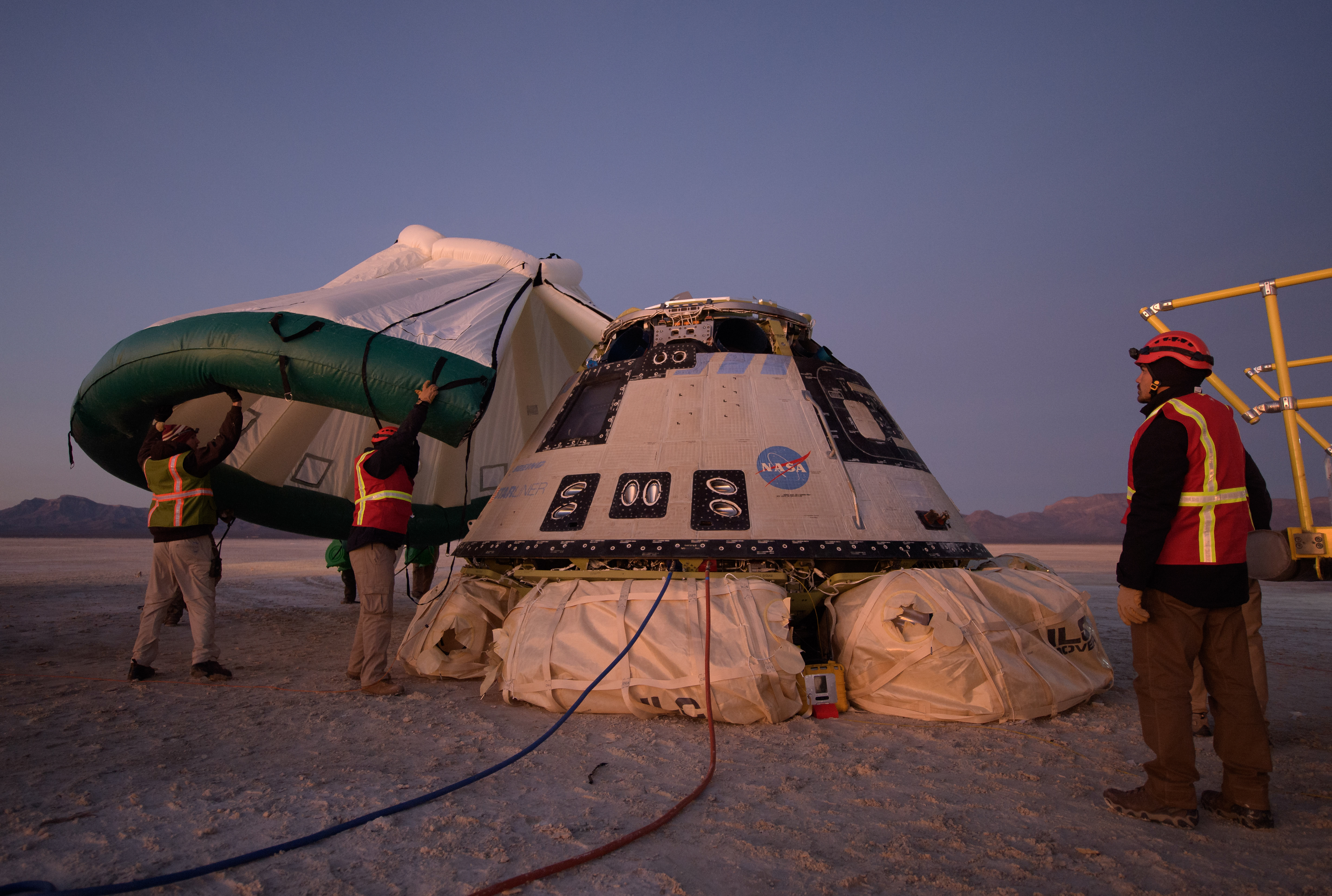 Boeing, NASA, and U.S. Army personnel work around the Boeing CST-100 Starliner spacecraft shortly after it landed in White Sands, New Mexico, Sunday, Dec. 22, 2019. The landing completes an abbreviated Orbital Flight Test for the company that still meets several mission objectives for NASA’s Commercial Crew program. The Starliner spacecraft launched on a United Launch Alliance Atlas V rocket at 6:36 a.m. Friday, Dec. 20 from Space Launch Complex 41 at Cape Canaveral Air Force Station in Florida.